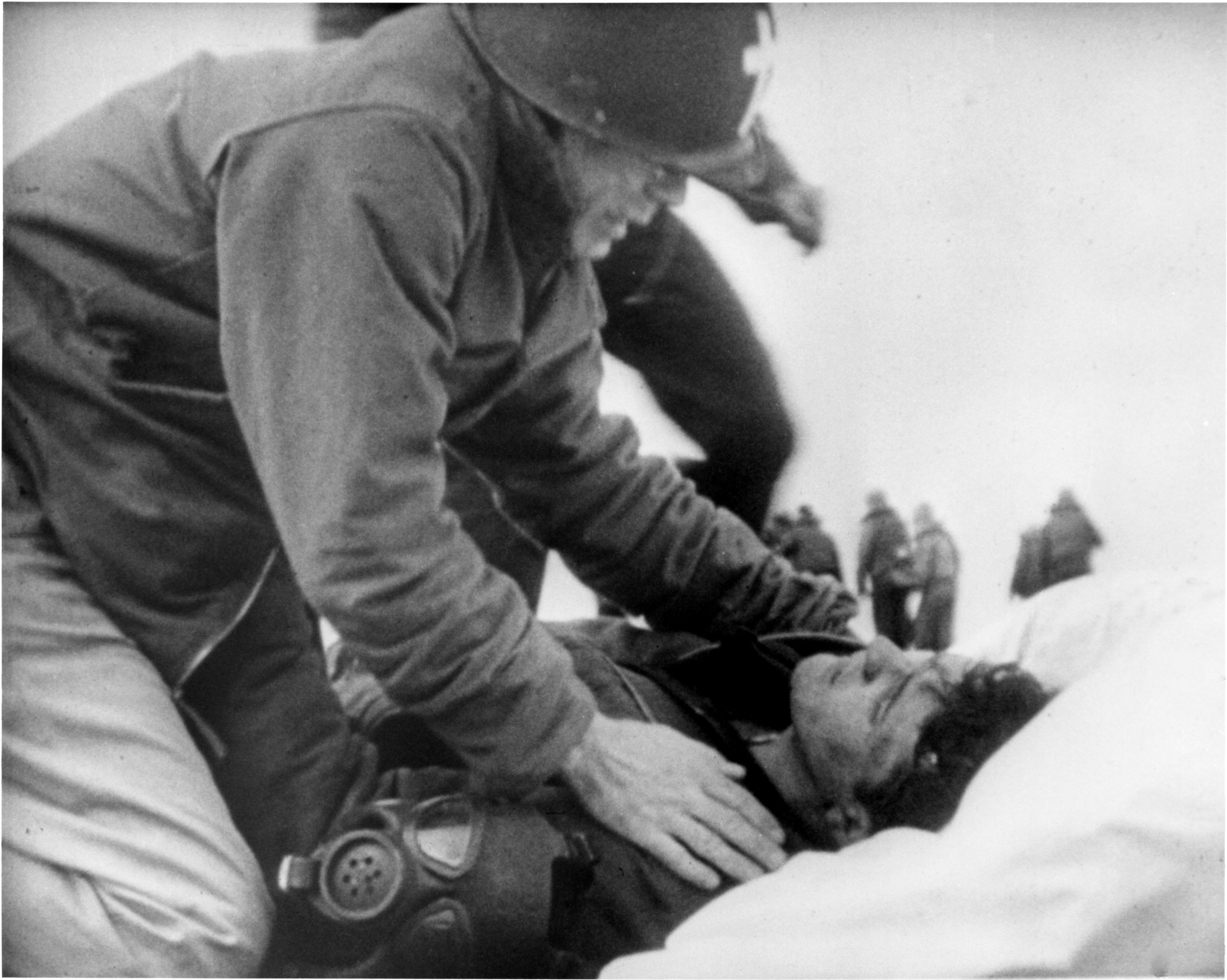 Lieutenant Commander Joseph T. O'Callahan, USNR(ChC) gives "Last Rites" to an injured crewman aboard USS Franklin (CV-13), after the ship was set afire by a Japanese air attack, 19 March 1945. The crewman is reportedly Robert C. Blanchard, who survived his injuries.